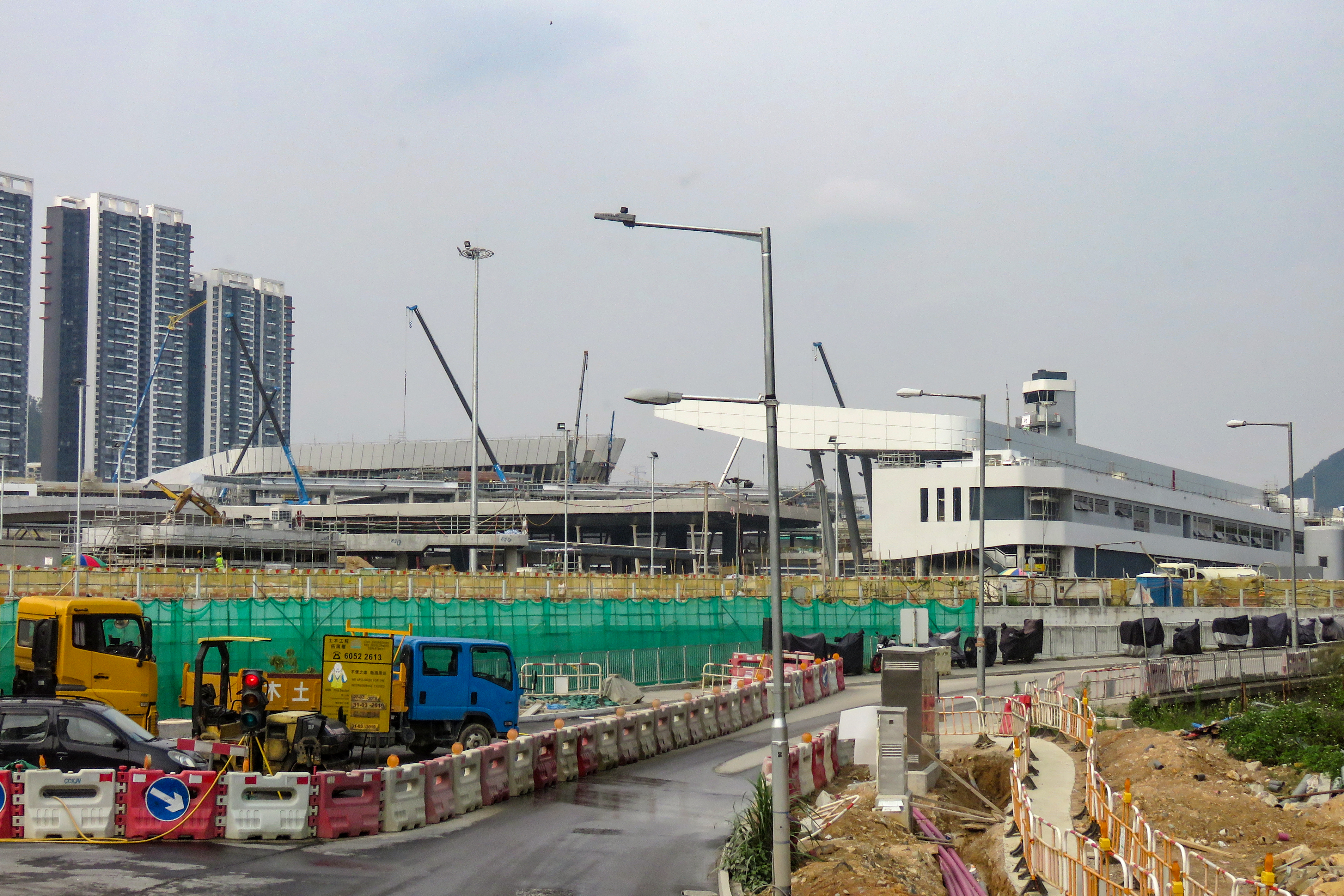 Taken from the upper deck of a 79K.